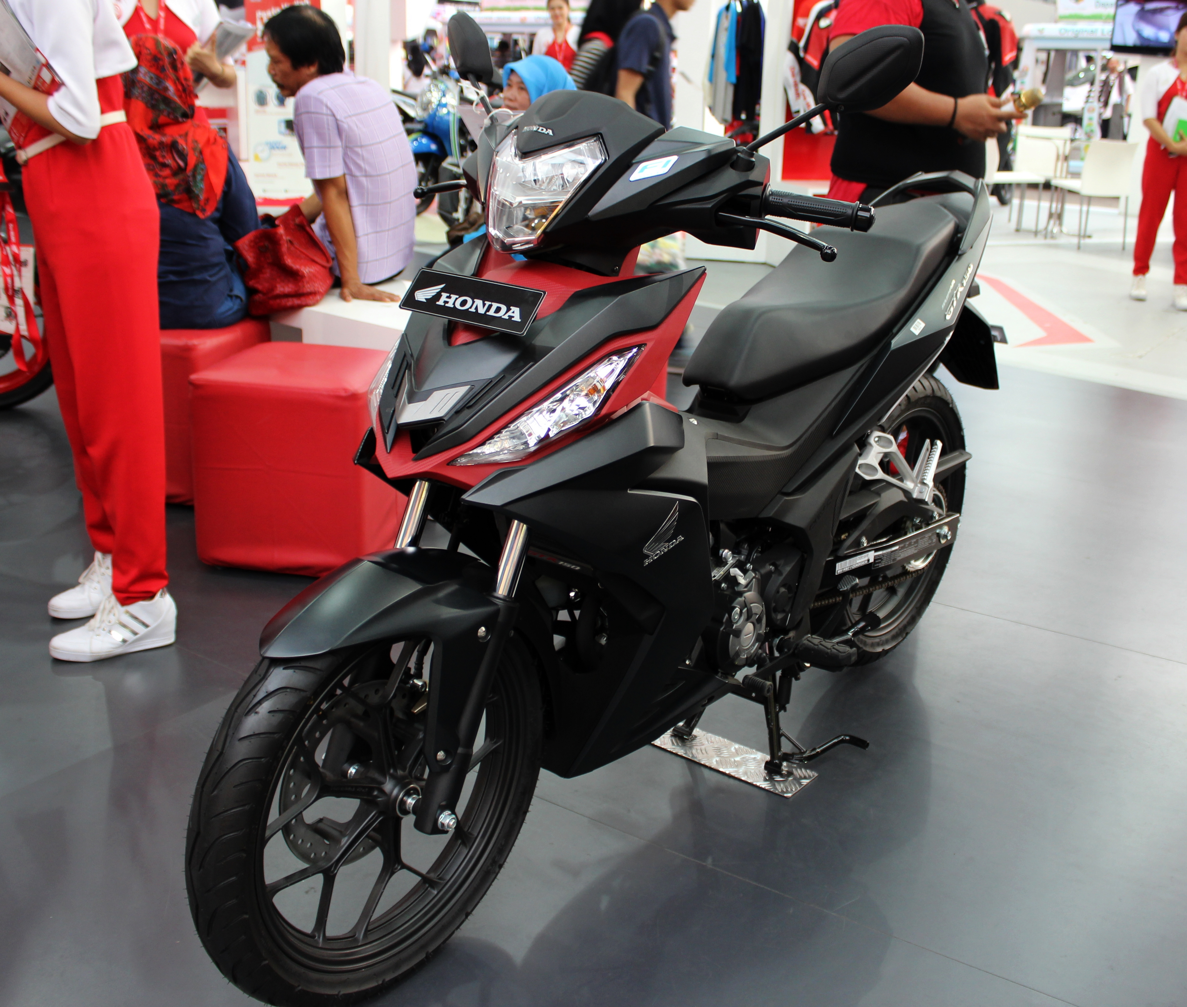 A Honda Supra GTR 150 photographed in Jakarta Fair 2016, Jakarta, Indonesia on June 21, 2016.